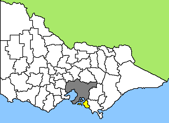 Map of Victoria/Australia, LGA of Bass Coast Shire highlighted